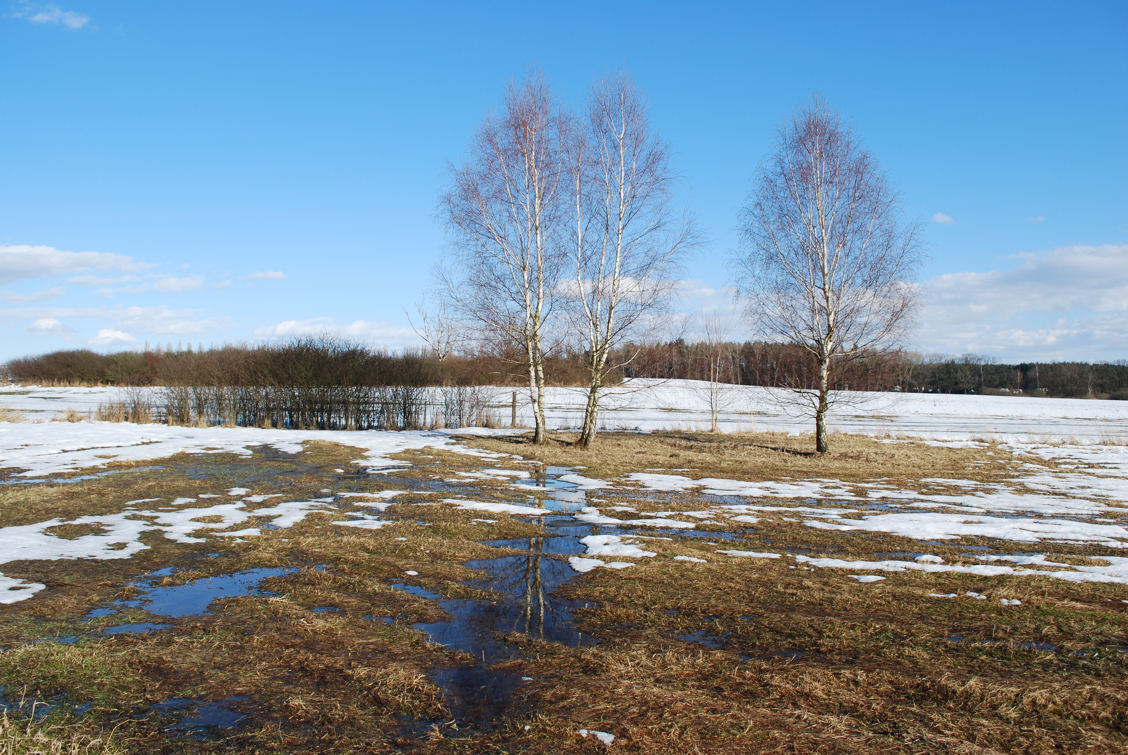 Natural monument Kutiny in Tábor District, Czech Republic This photograph was taken within the scope of the 'Czech Municipalities Photographs' grant. - OpenStreetMap (Info)